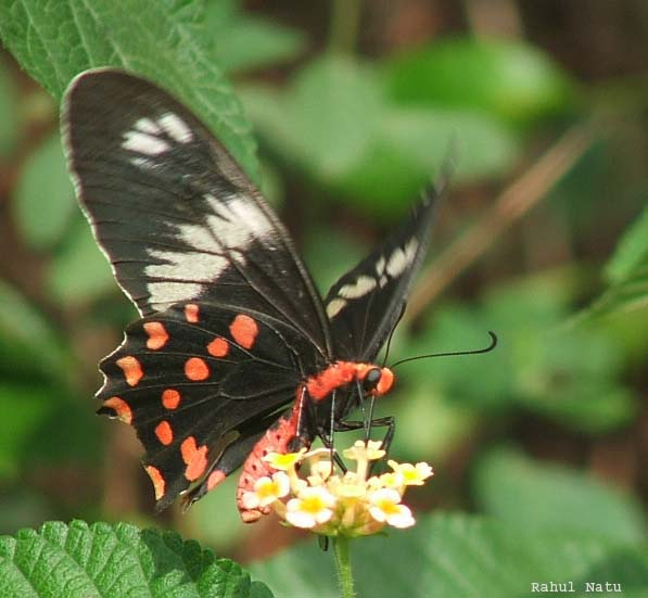 Crimson Rose, Pachliopta hector seen feeding from Lantana flowers. Photographed on 26 Jun 2005 by Rahul Natu who has donated it for use on Wikipedia. This image has been uploaded with permission of Rahul Natu by Nature Loader.